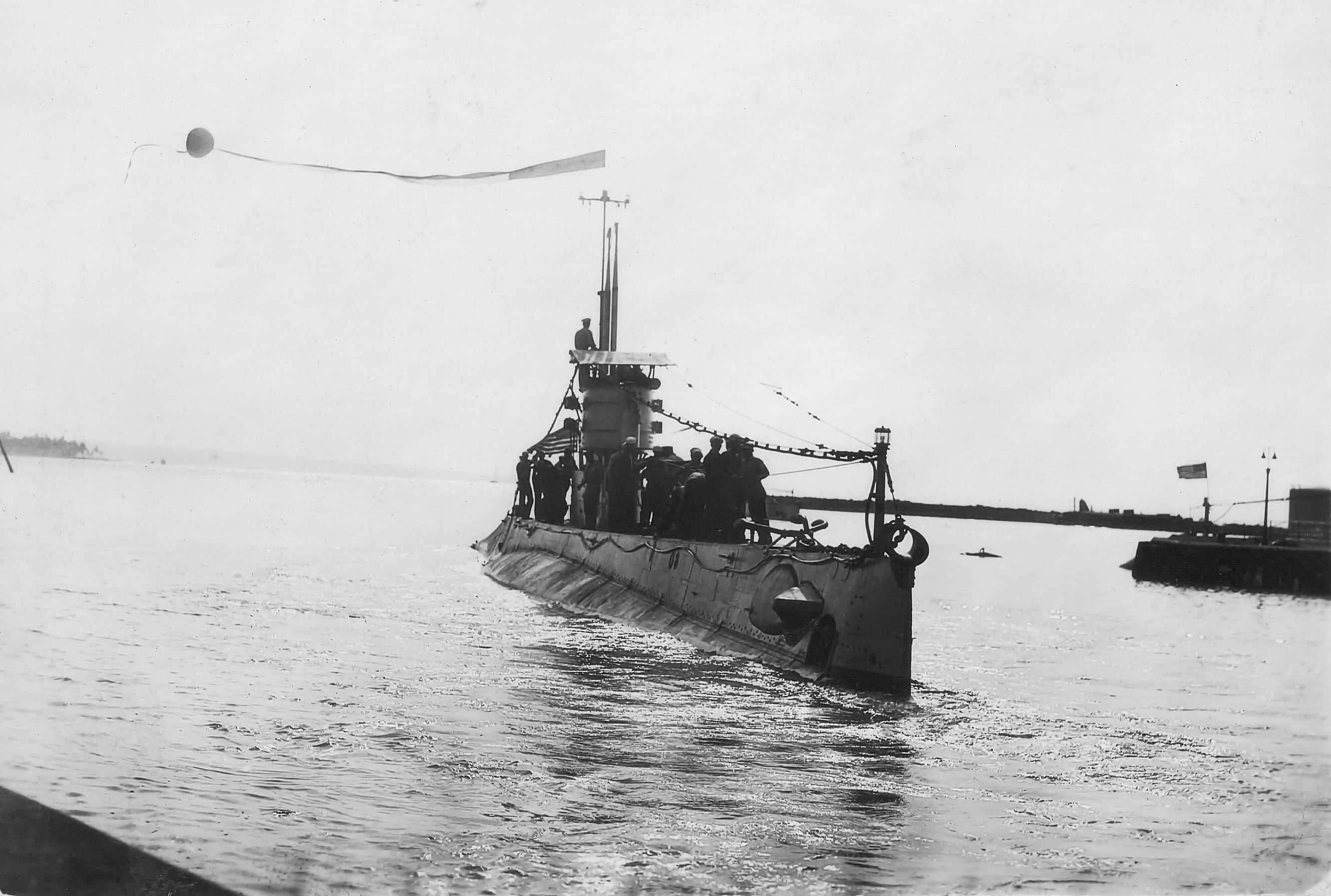 USS O-8 (SS-69) arriving in port. Picture is ca. 1927.